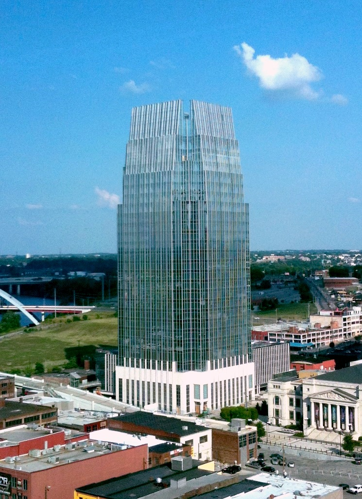 The nearly-finished The Pinnacle at Symphony Place, located in Nashville, Tennessee